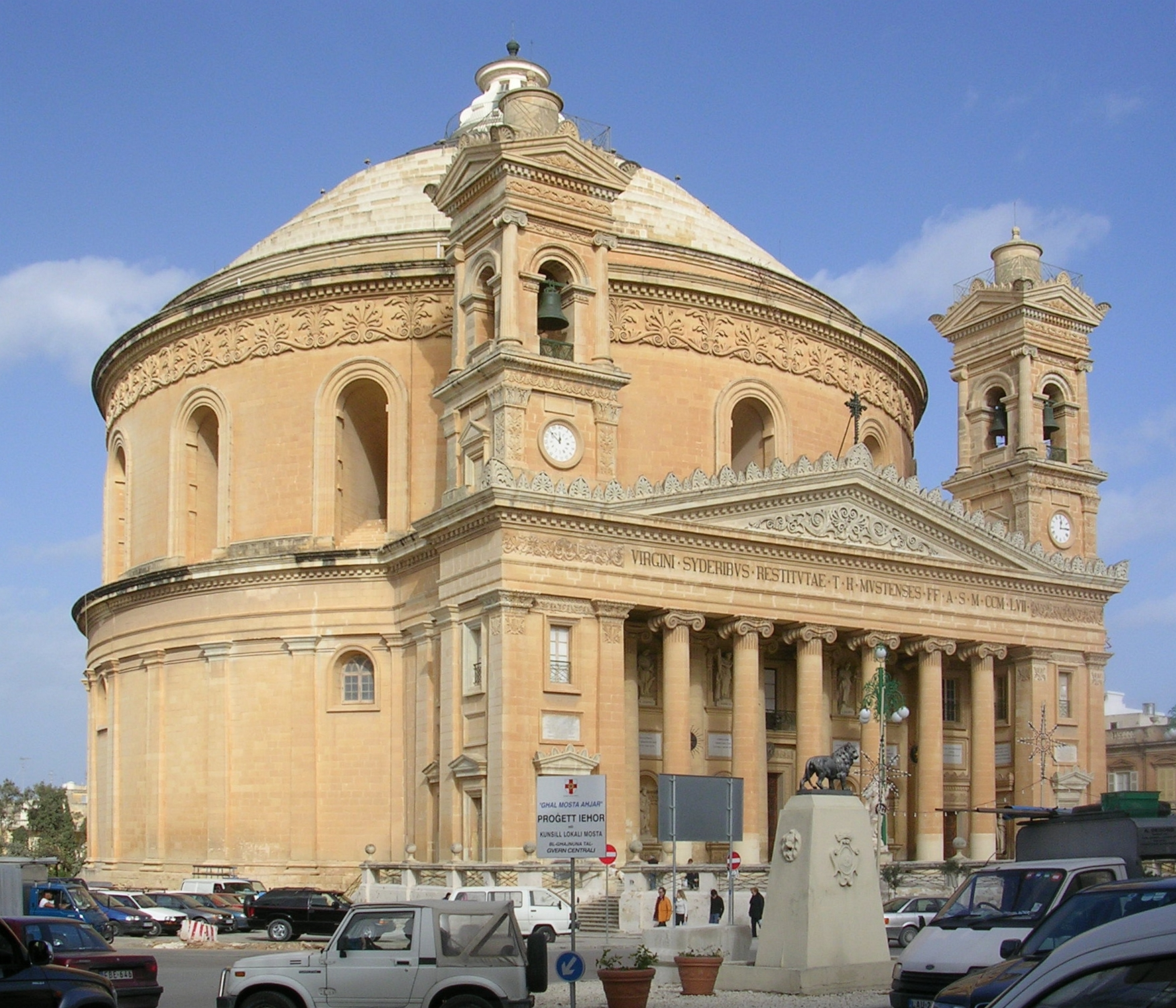 The Rotunda of Mosta in the town of Mosta, Malta. Built in the period 1833-1860.